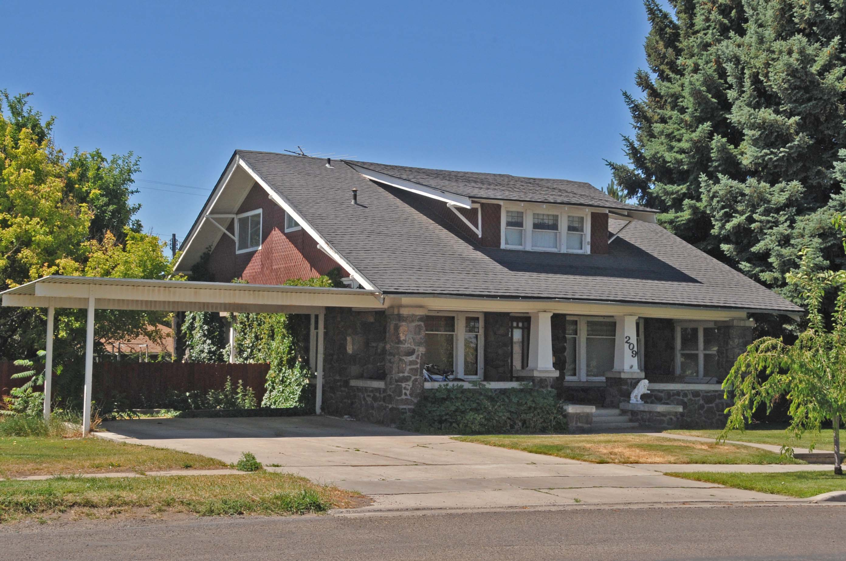 BUNGALOW/CRAFTSMAN STYLE; 1918; ARCHITECT WAS H.T. PUGH WHO DID MANY BUILDINGS IN THE AREA